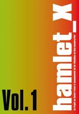 Cover of Herbert Fritsch’s TV-production "hamlet X", Vol.1, 2003